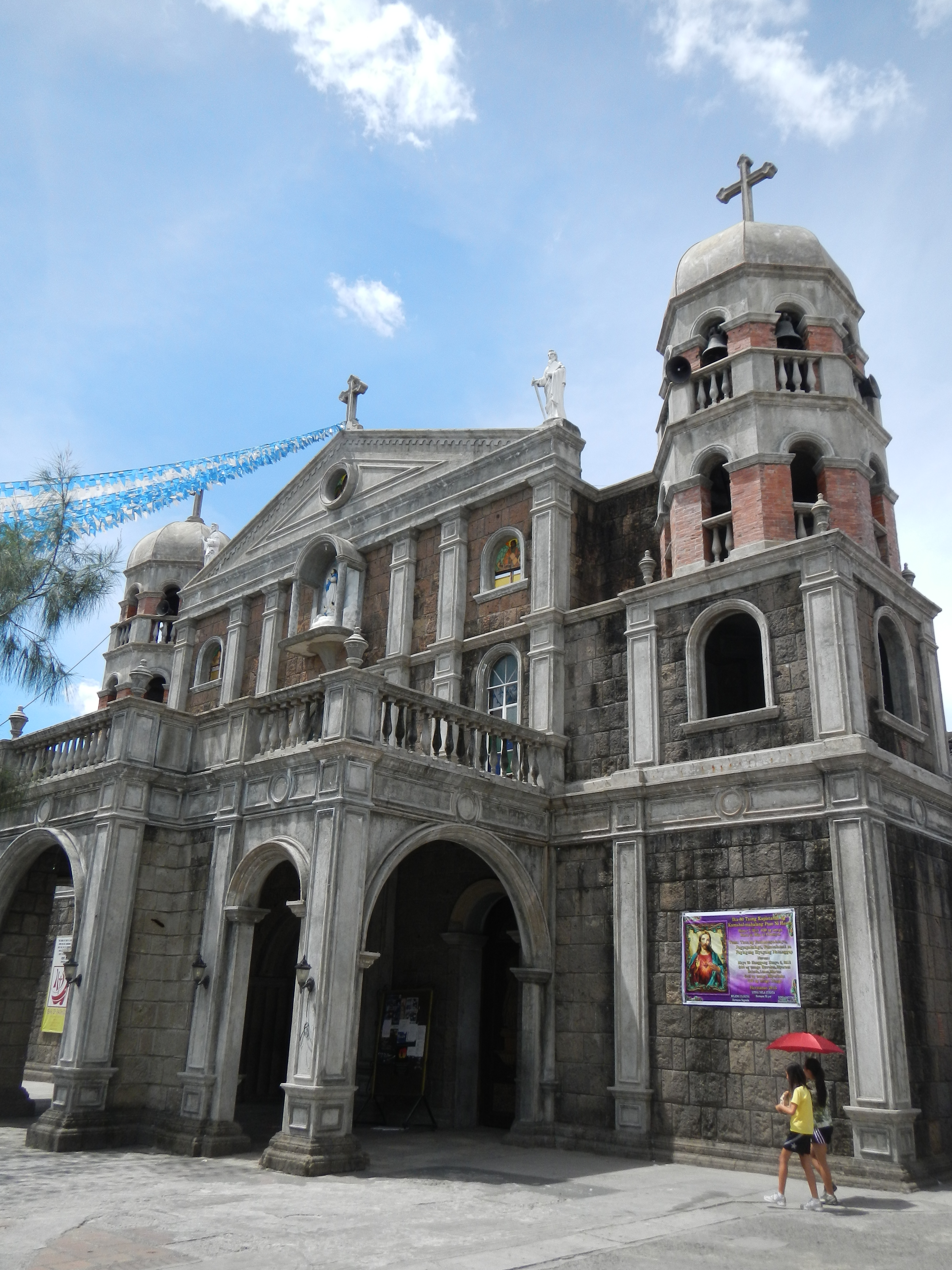 1867 Immaculate Conception Parish Church of Dasmariñas–Simbahan ng Imaculada Concepcion “Church of Dasmariñas Cavite” (Poblacion, Dasmariñas City, Cavite) [1][2] [3] [4] Parish. Established in 1867. current parish priest: Rev. Fr. Hermogenes G. Rafal Coordinates: 14°19'37"N 120°56'9"E - District 4 District Coordinator: Rev. Fr. Danilo C. Tiong Vicariate of Immaculate Conception Vicar Forane: Rev. Fr. Danilo B. Paraiso Vicarial Representative: Rev. Fr. Engelbert A. Bagnas - In the Immaculate Conception Church took place a bloody battle between the Spanish troops and Filipino troops. Many town residents were imprisoned, executed and buried during the Japanese occupation. Its convent was once the seat of the civil government. It belongs to the Roman Catholic Diocese of Imus.[5][6] - Dasmariñas [7] Website, officially the City of Dasmariñas (often shortened to Dasma; Filipino: Lungsod ng Dasmariñas) is the largest city, both in terms of area and population in the province of Cavite, Philippines. Website Immaculate Conception[8]---------[N.B. June 7, 1st Friday, 2013 Photography of - From Bulacan at 9:05 a.m., I took photo of Dasmariñas [9] City at 12:49 pm, the Aguinaldo Highway, then, at 3:35 pm, I took photo of Carmona, Cavite [10] - I finished San Lazaro Carmona Race Track, Carmona Welcome Arch and Binan Laguna Welcome Arch and Araneta Coliseum Quezon City at 8:31 p.m. and started uploading via slow internet next day June 8, 2013 at 6:59 pm - I hereby certify that these rarest, raw, original and unedited photos are exclusive for Commons and Wikipedia never uploaded in any Internet or any site, and for the public domain without any condition.]